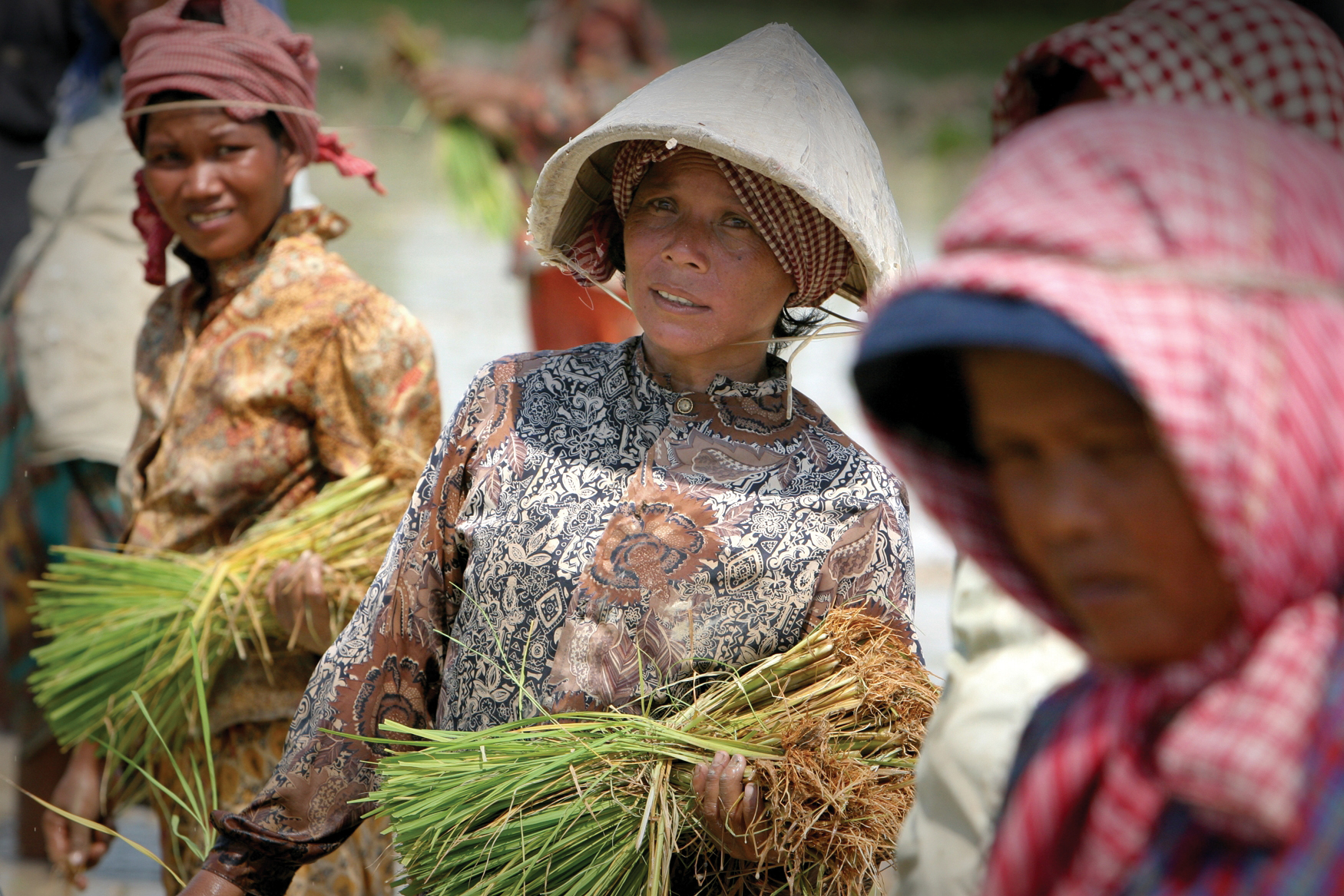 A group of women plant paddy rice seedlings in a field near Sekong, Laos 2007.